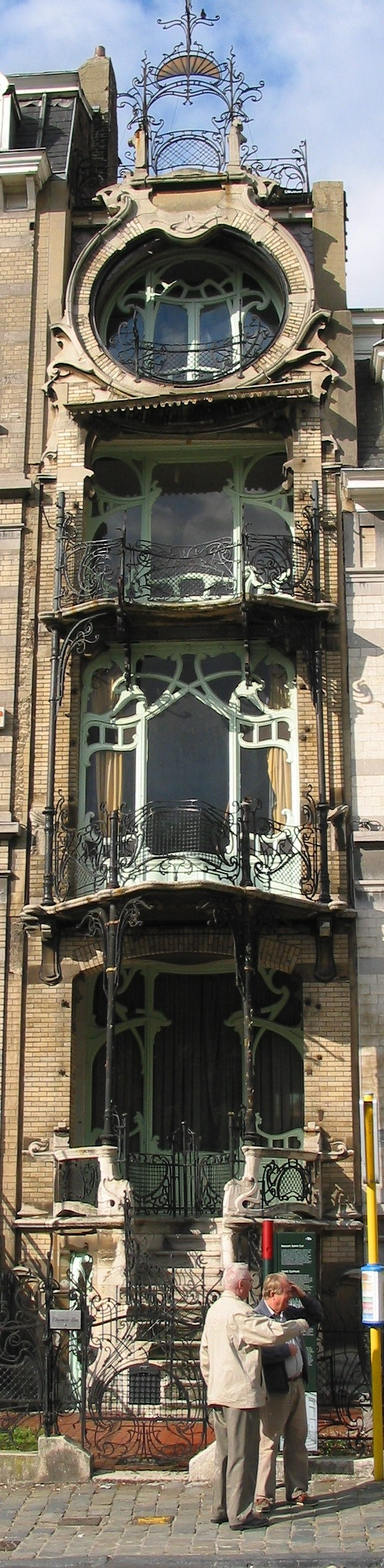 Brussels (Belgium), Ambiorixsquare - The St. Cyr hotel (1903 - Architect: Gustave Strauven).